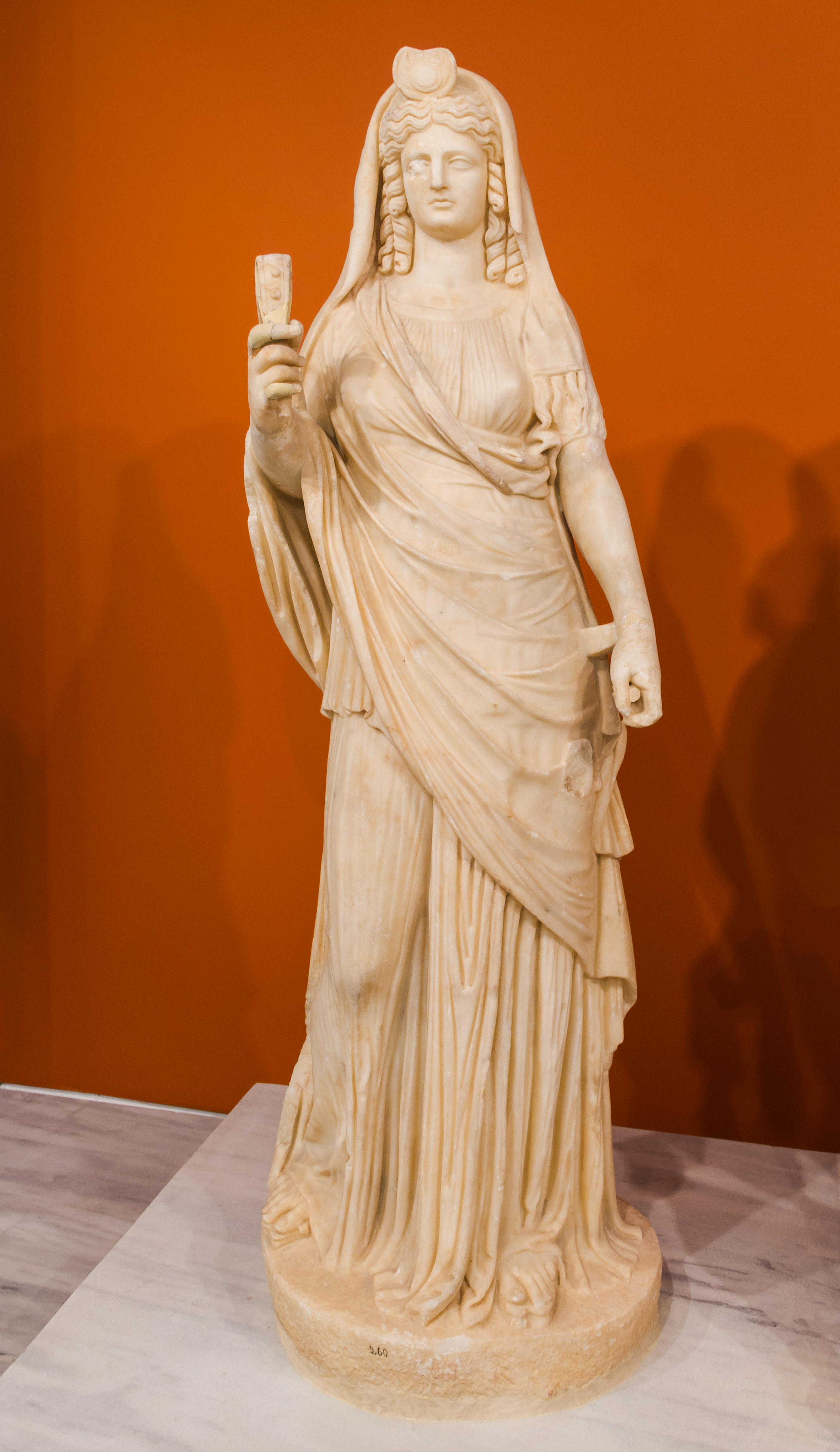 Isis/Persephone statue, marble, 2nd-century. Heraklion Archaeological Museum Native nameΑρχαιολογικό Μουσείο ΗρακλείουLocationHeraklion, GreeceCoordinates35° 20′ 22.34″ N, 25° 08′ 14″ E Established1883Web pageheraklionmuseum.gr Authority control : Q636972 VIAF: 158400708 ISNI: 0000 0001 2260 1622 ULAN: 500300551 LCCN: n89629636 GND: 2068055-7 WorldCat institution QS:P195,Q636972